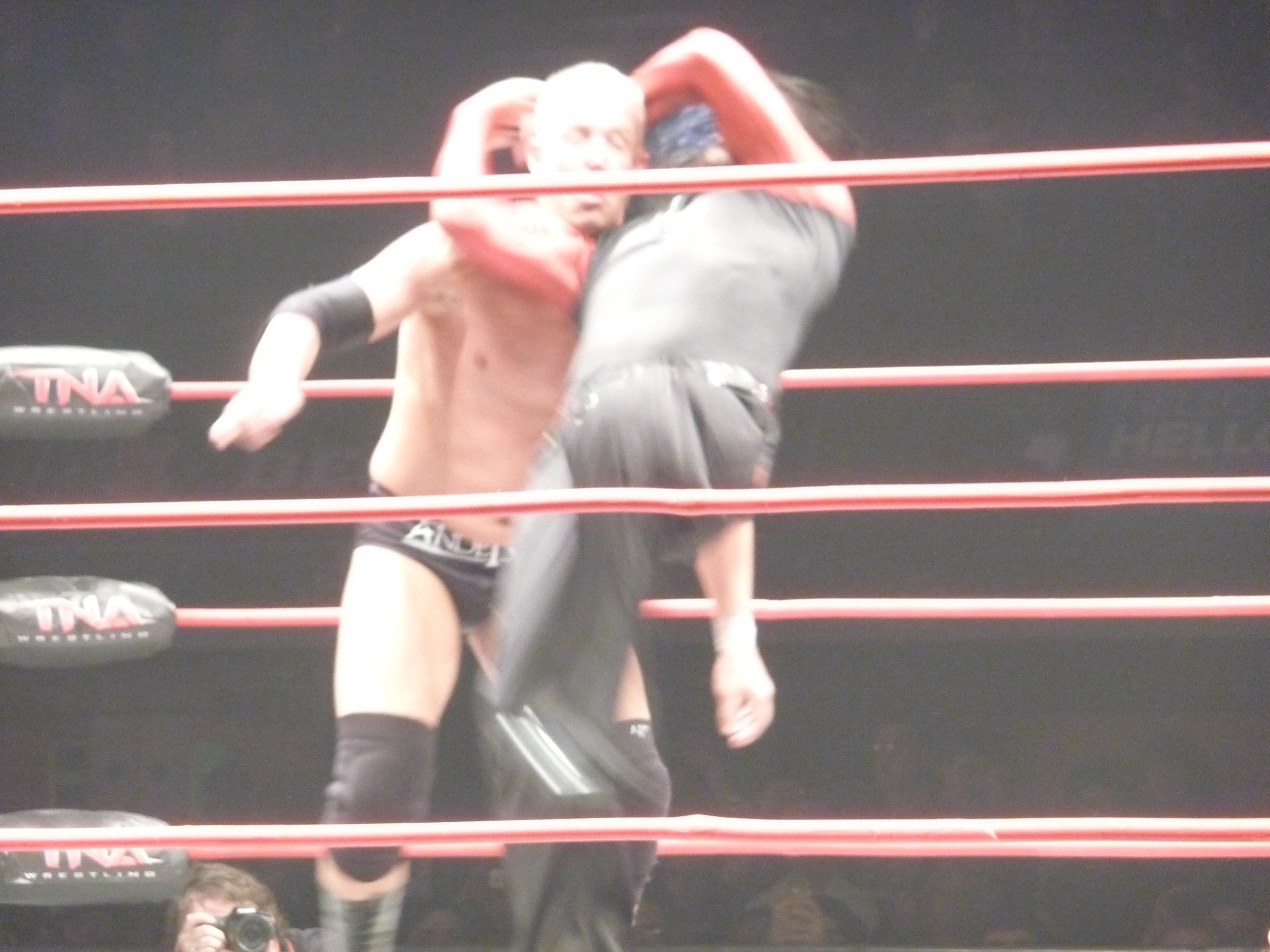 TNA World Heavyweight Title match